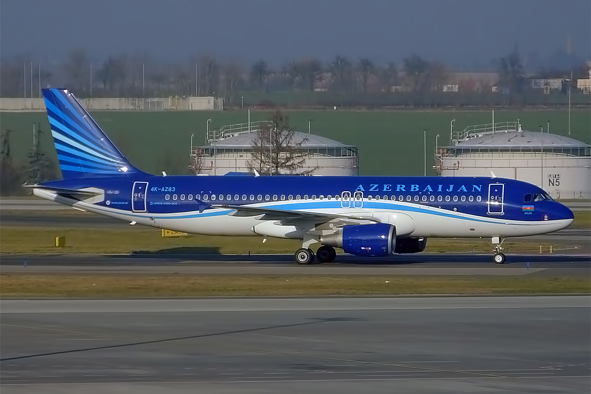 Azerbaijan Airlines, 4K-AZ83, Airbus A320-214